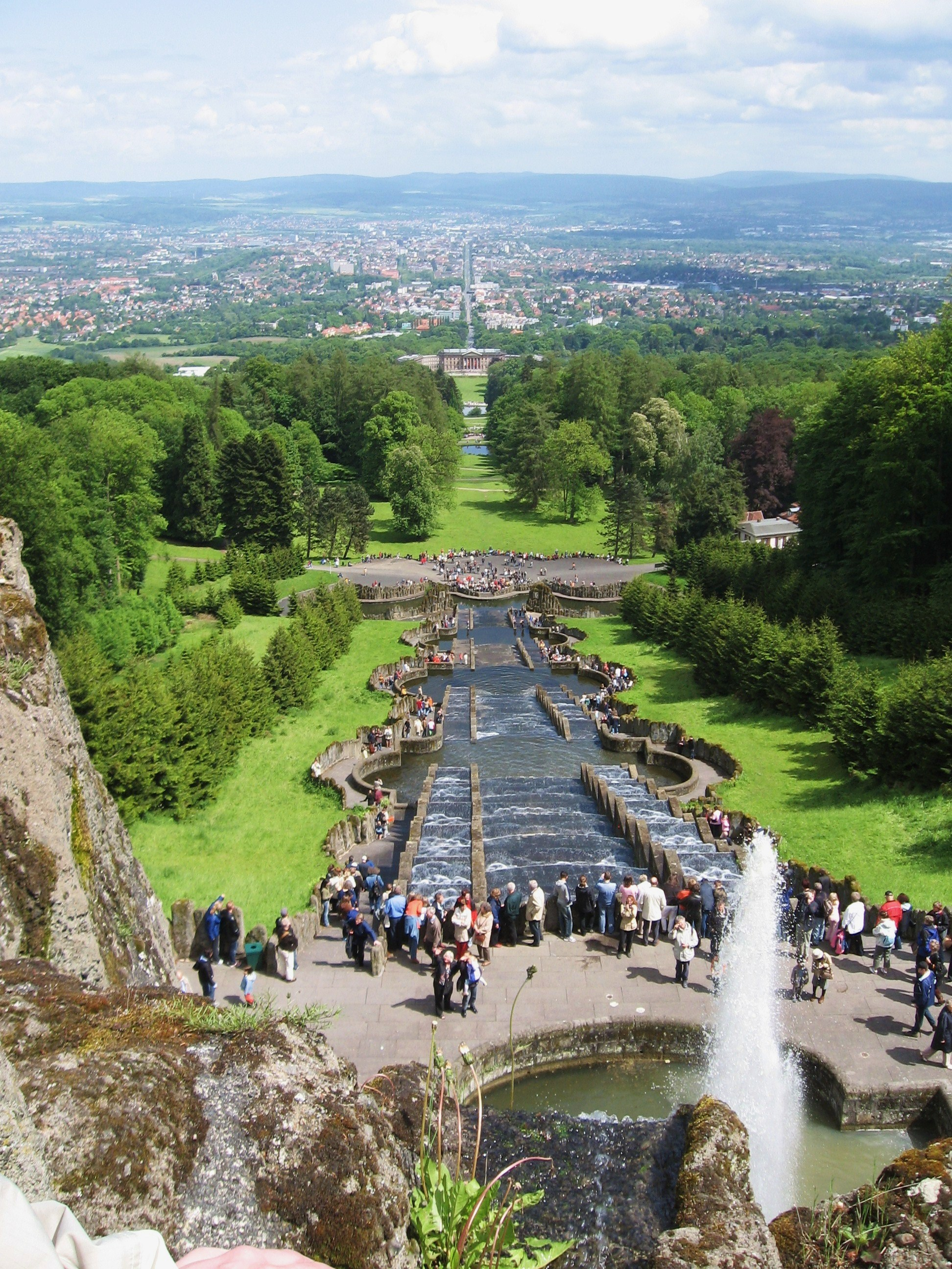 Germany / North Hesse / Kassel / View from the Bergpark Wilhelmshöhe (mountain park) to Kassel. The Baroque Water feature are operate. In background the castle Wilhelmshöhe and street "Wilhelmshöher Allee" to city.